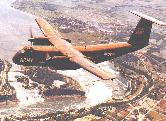 The second prototype de Havilland Canada "Buffalo" (AC-2/CV-7/C-8) on a test flight on behalf of the United States Army, flying over Niagara Falls.